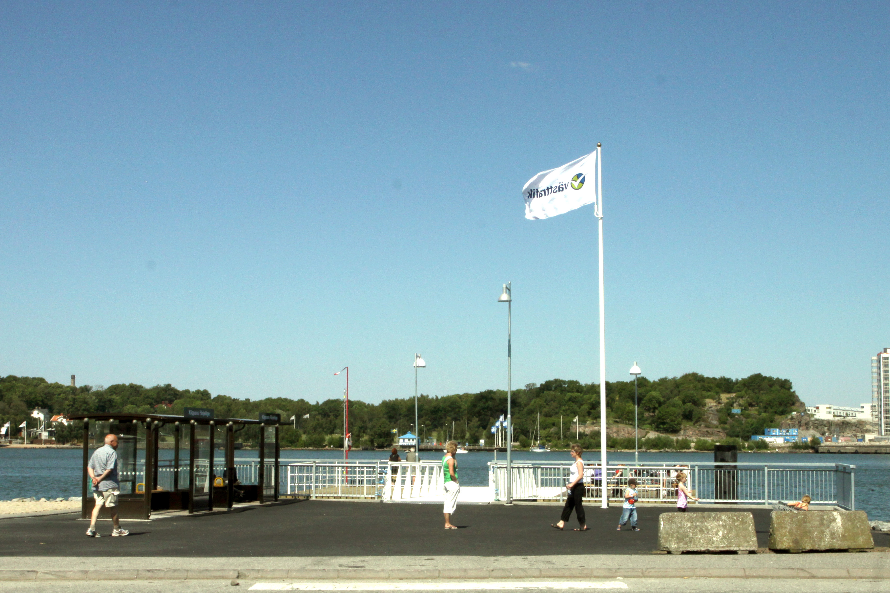 A stop for the local ferry at Klippans in Gothenburg, Sweden